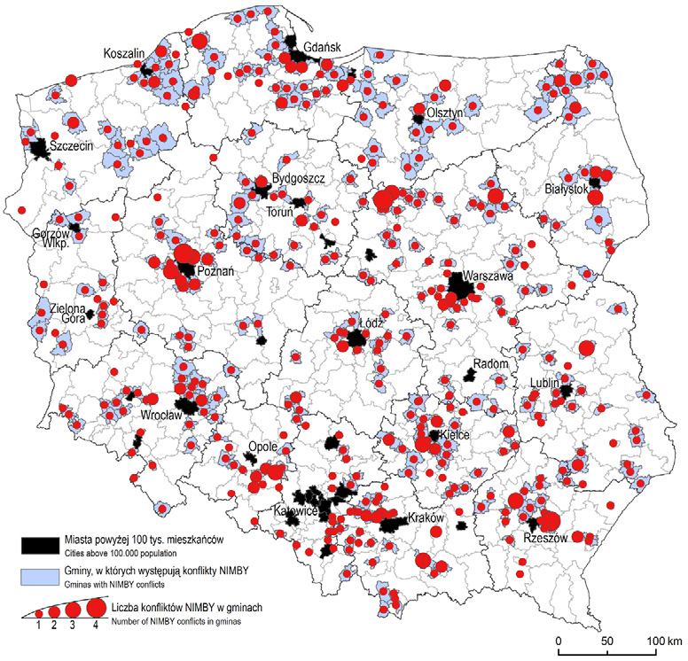 Authors of the original study conducted a search query in media coverage of NIMBY conflicts between 2007.01–2014.03 and visualized the results.